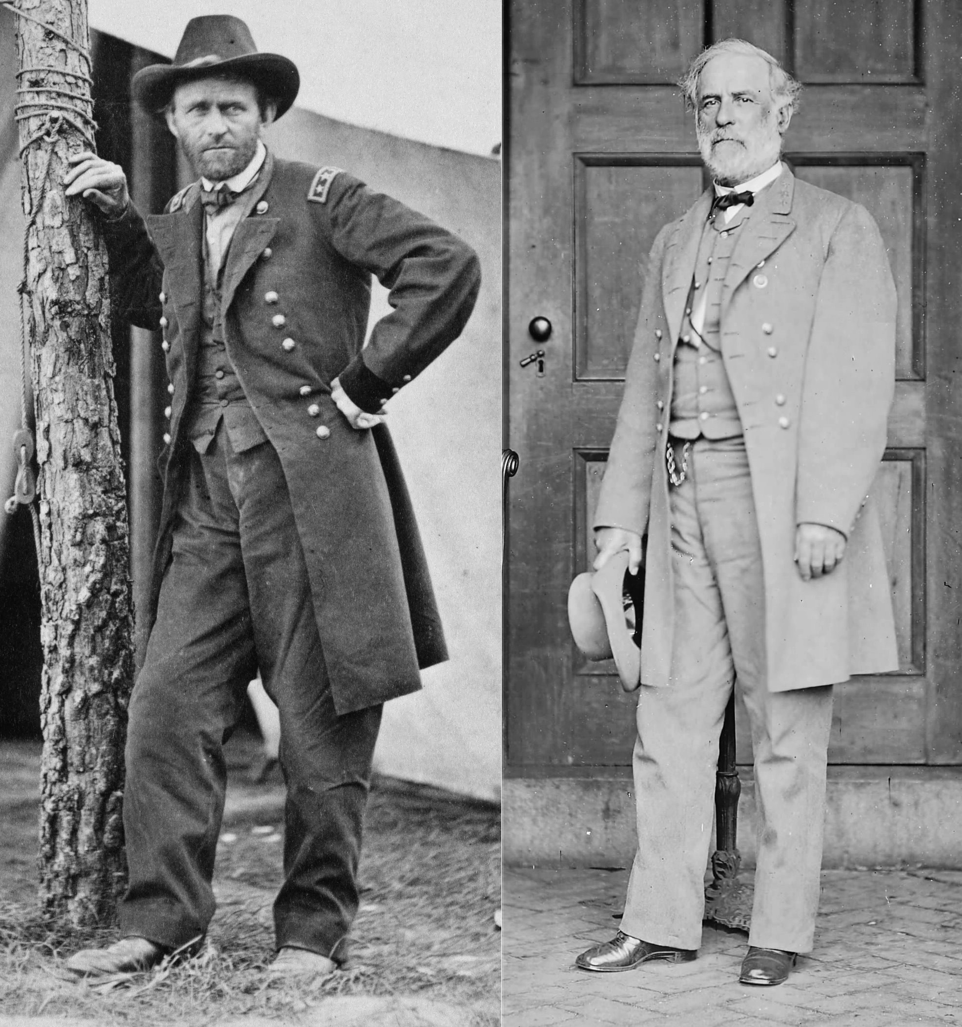 Photo montage of two Wikipedia images by Hal Jespersen.